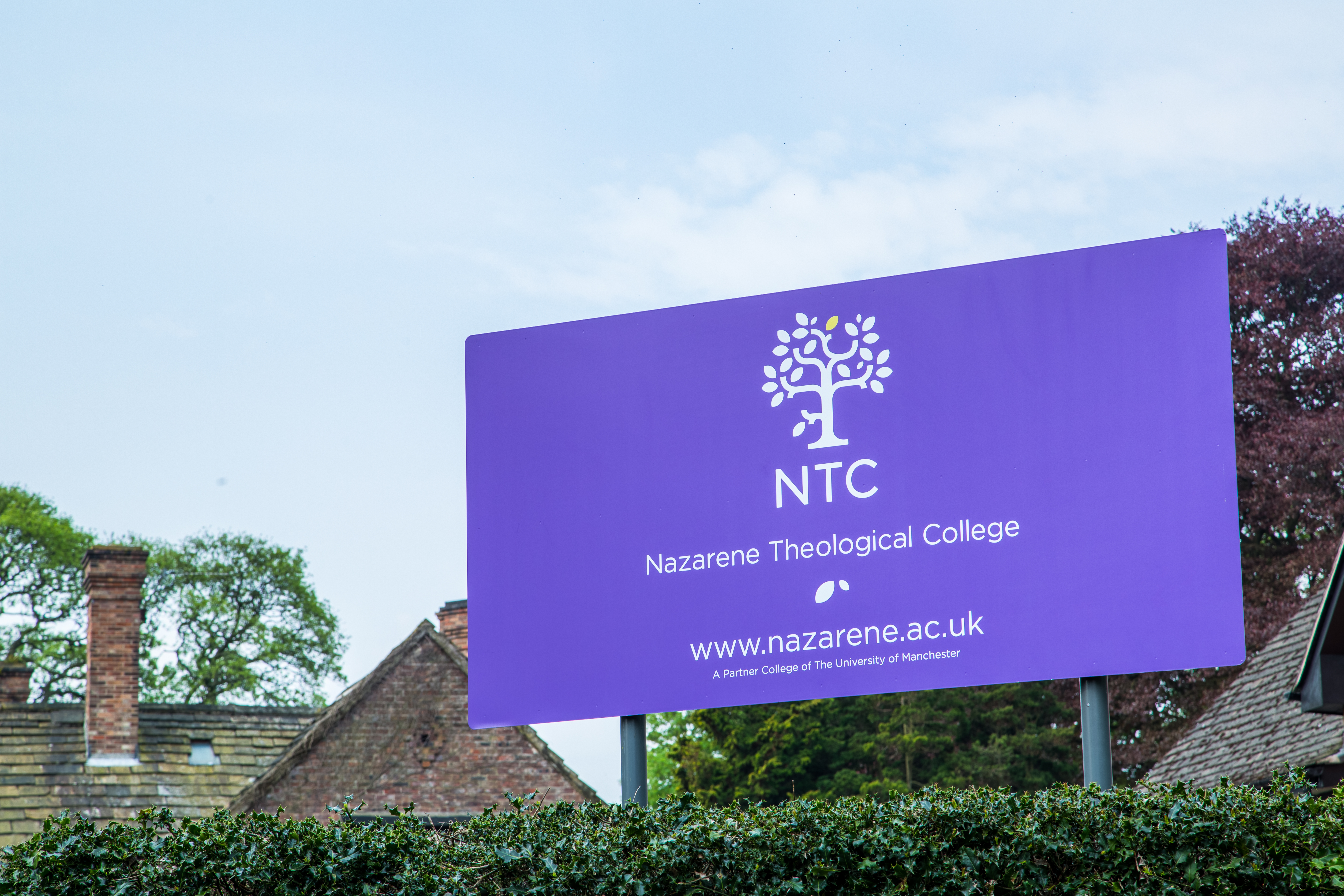 The front entrance